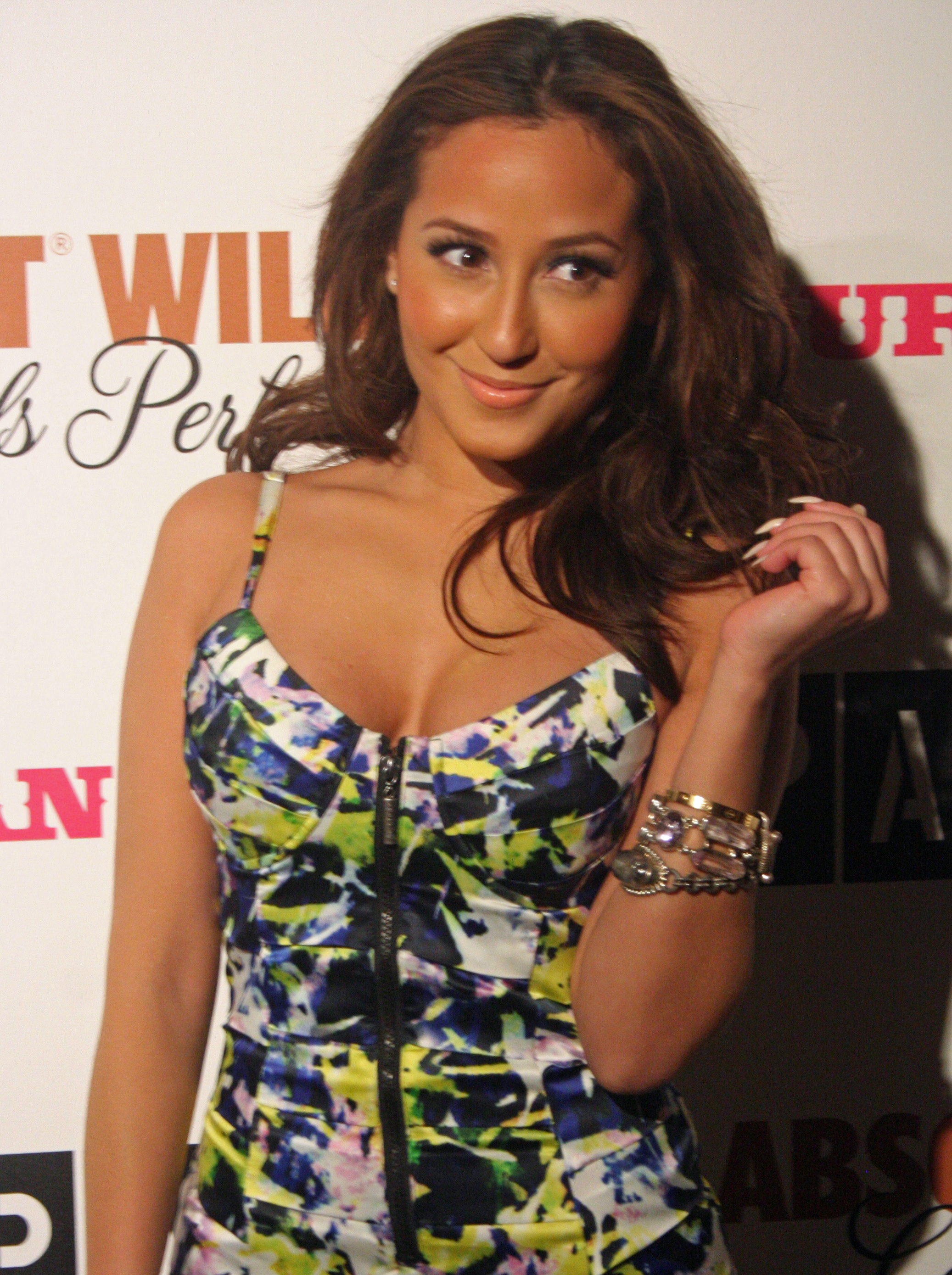 Adrienne Bailon at the Paper Magazine Beautiful People Absolut Wild Tea and Paper Party at Hudson, New York City in March 2011.